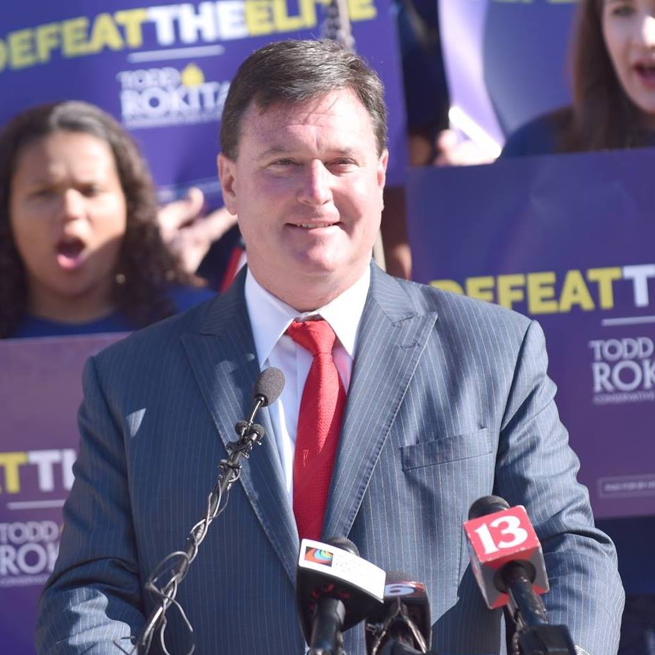 Todd Rokita Announces Run for U.S. Senate